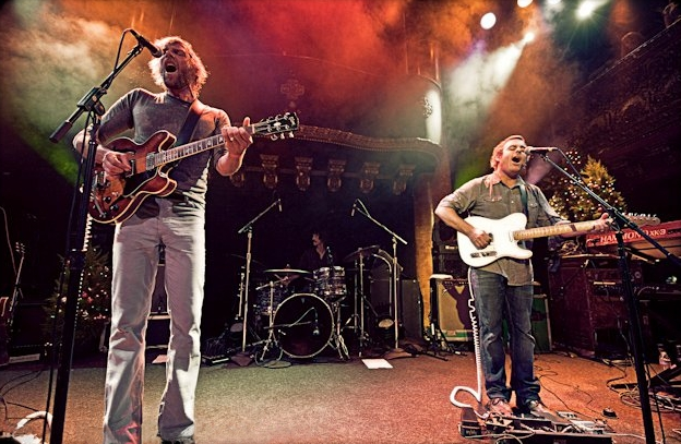 The Mother Hips performed at the Great American Music Hall.